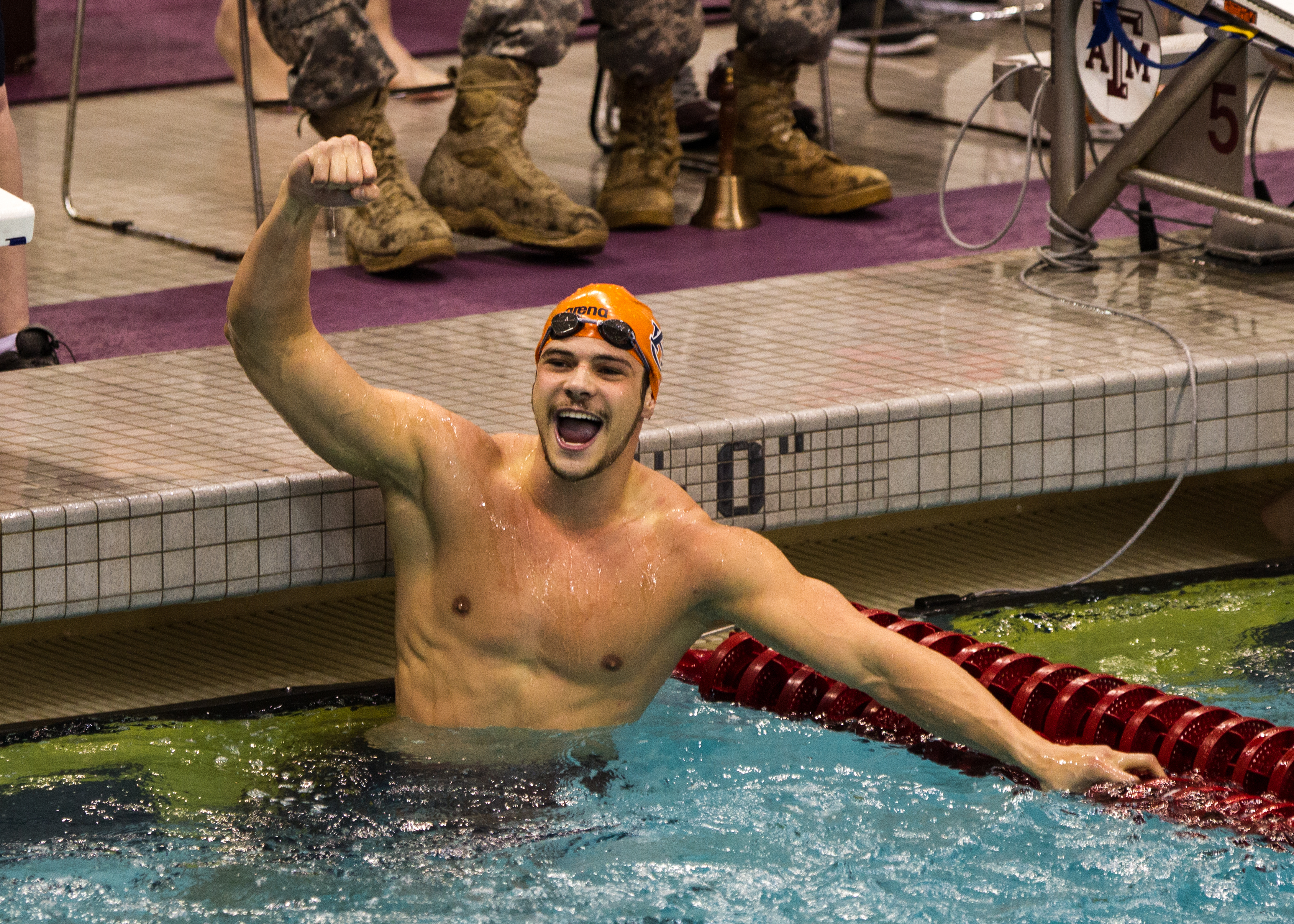 Marcelo Chierighini at SEC championship 2013